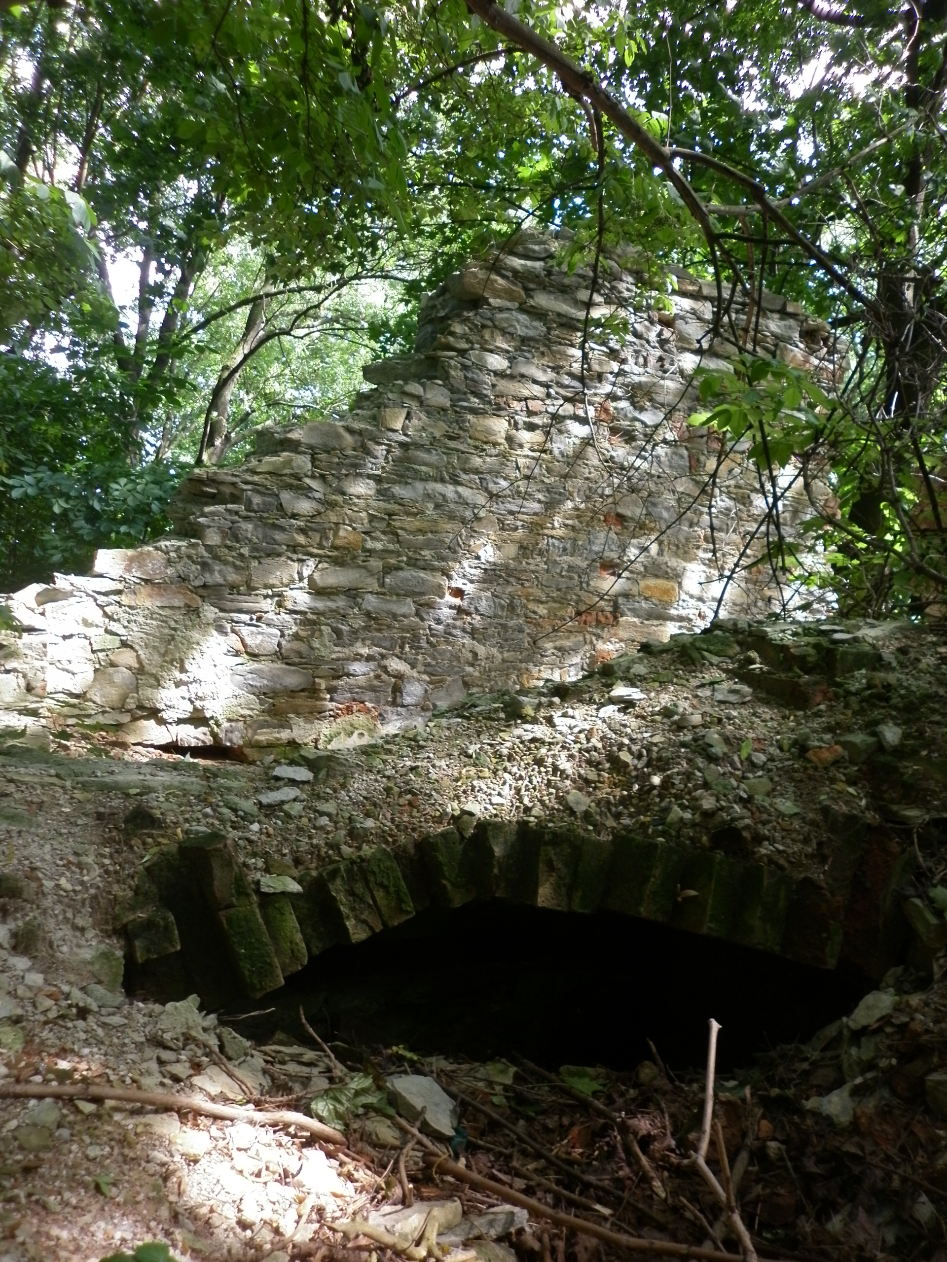 Ruins of an old hunting castle "Neulust" (from 18th century) situated in a forest nearby Uhersko, Pardubice District, Czech Republic. Demolished in 1908.